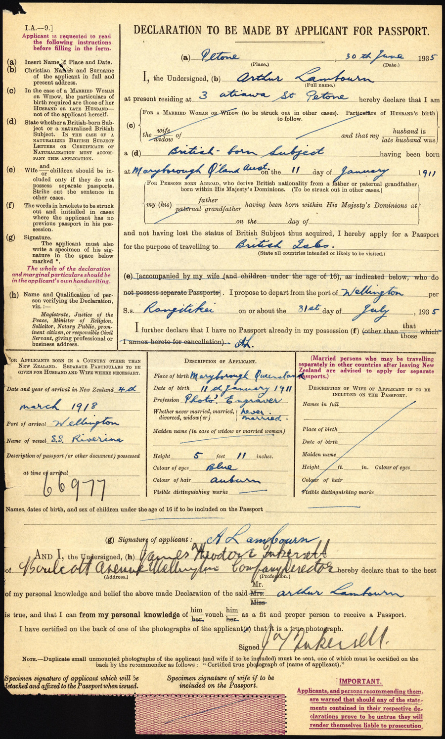 Archives New Zealand Reference: ACGO 8333 IA1 1350 / 15/11/59182